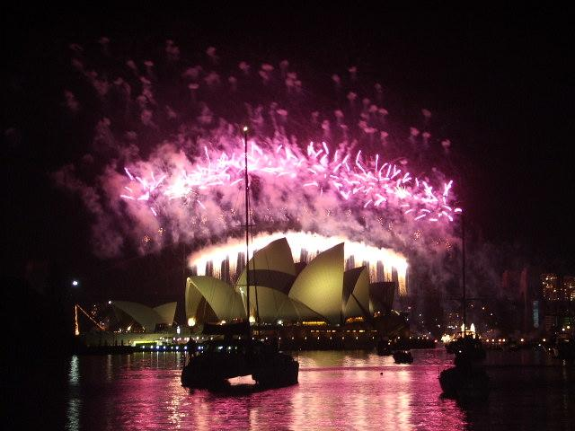 2005 Sydney Harbour New Years Eve Fireworks over Sydney Harbour Bridge and Sydney Opera House.